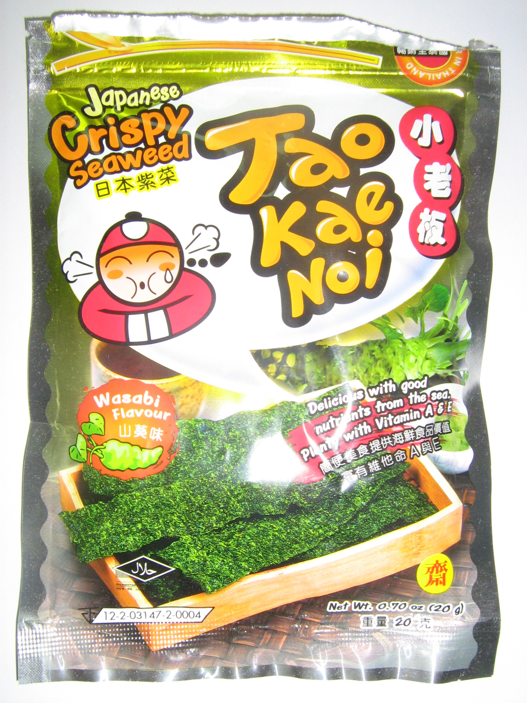 A bag of Tao Kae Noi seaweed.